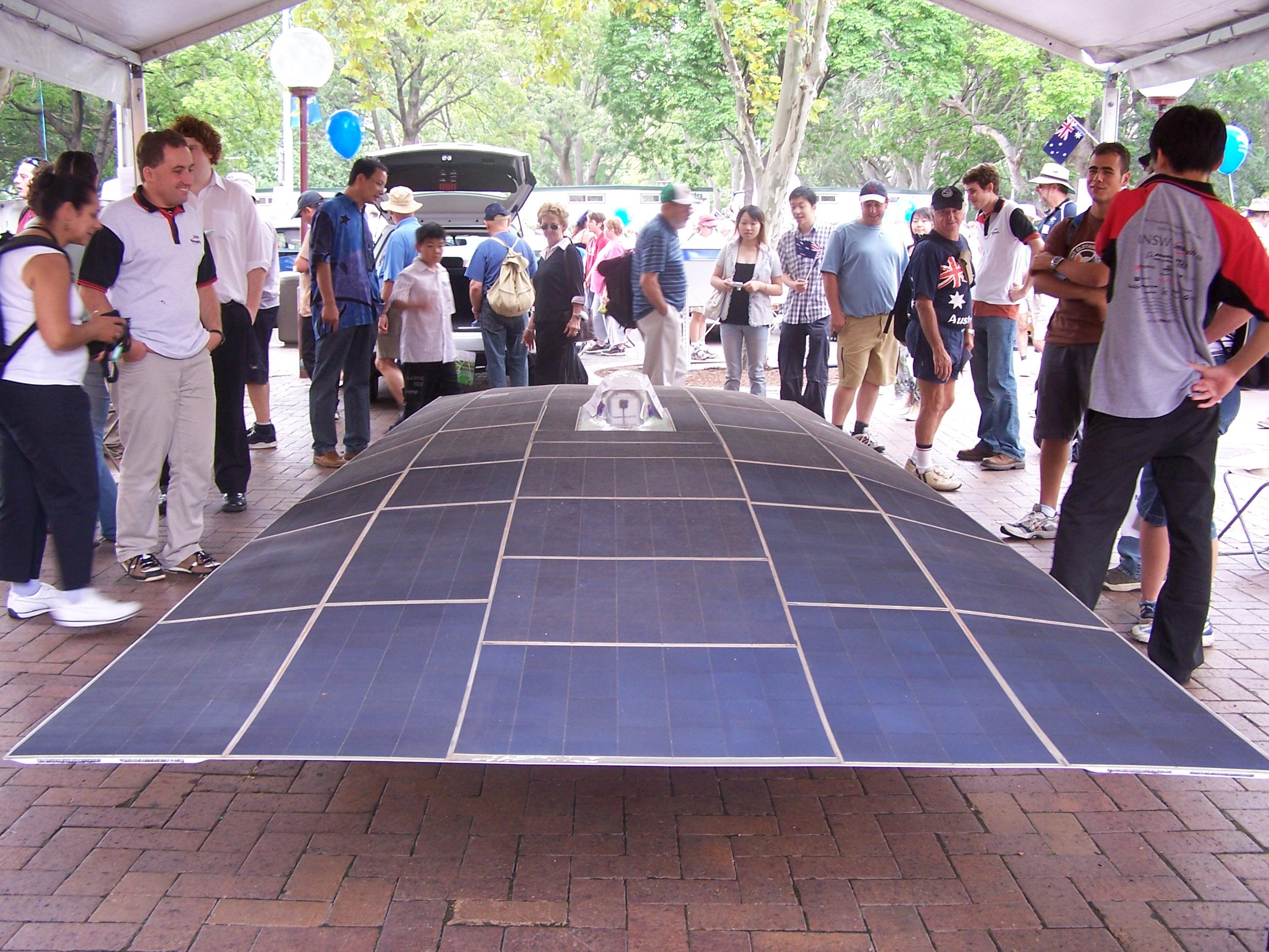 UNSW Solar Racing Team